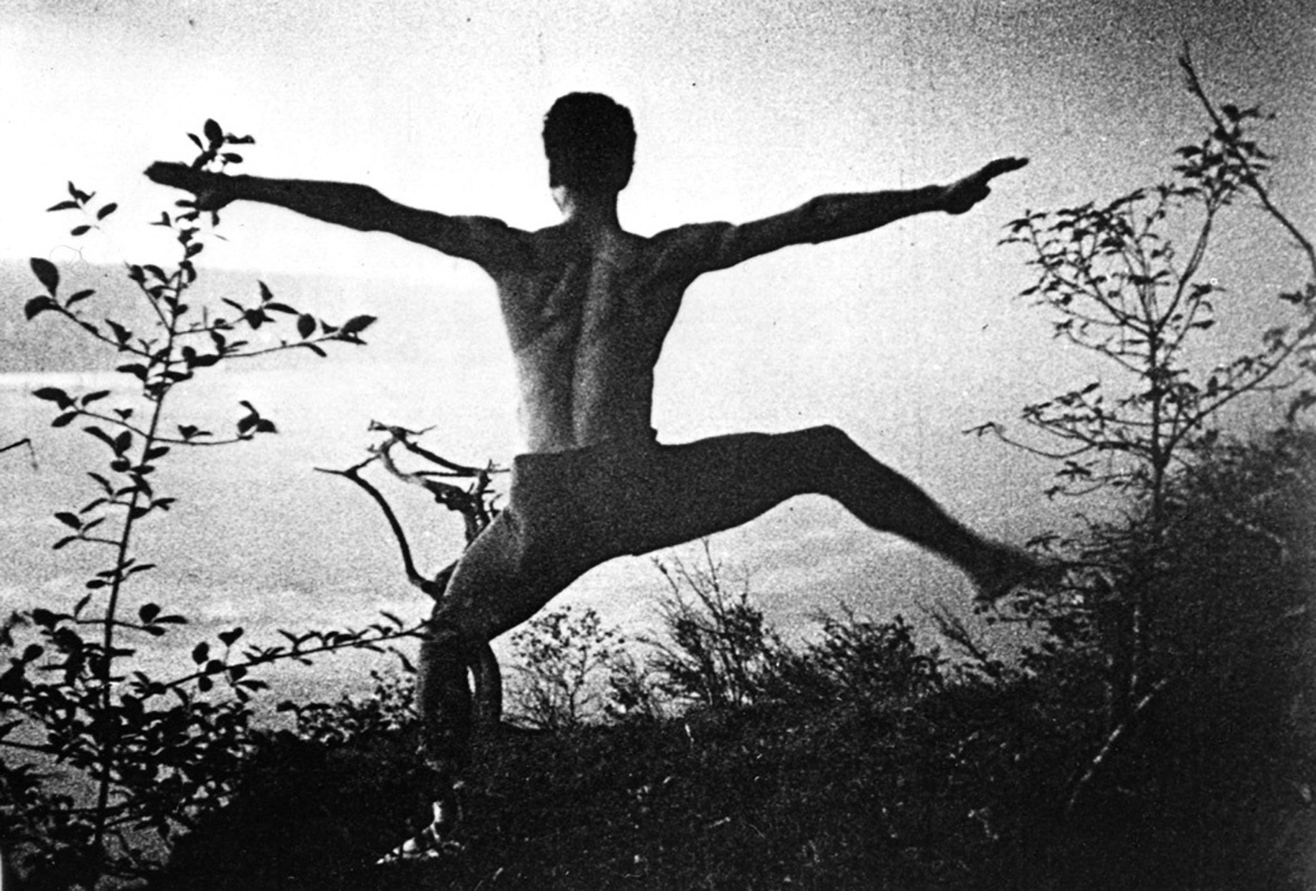 Still from the experimental 1943 short film A Study in Choreography for Camera by Maya Deren.